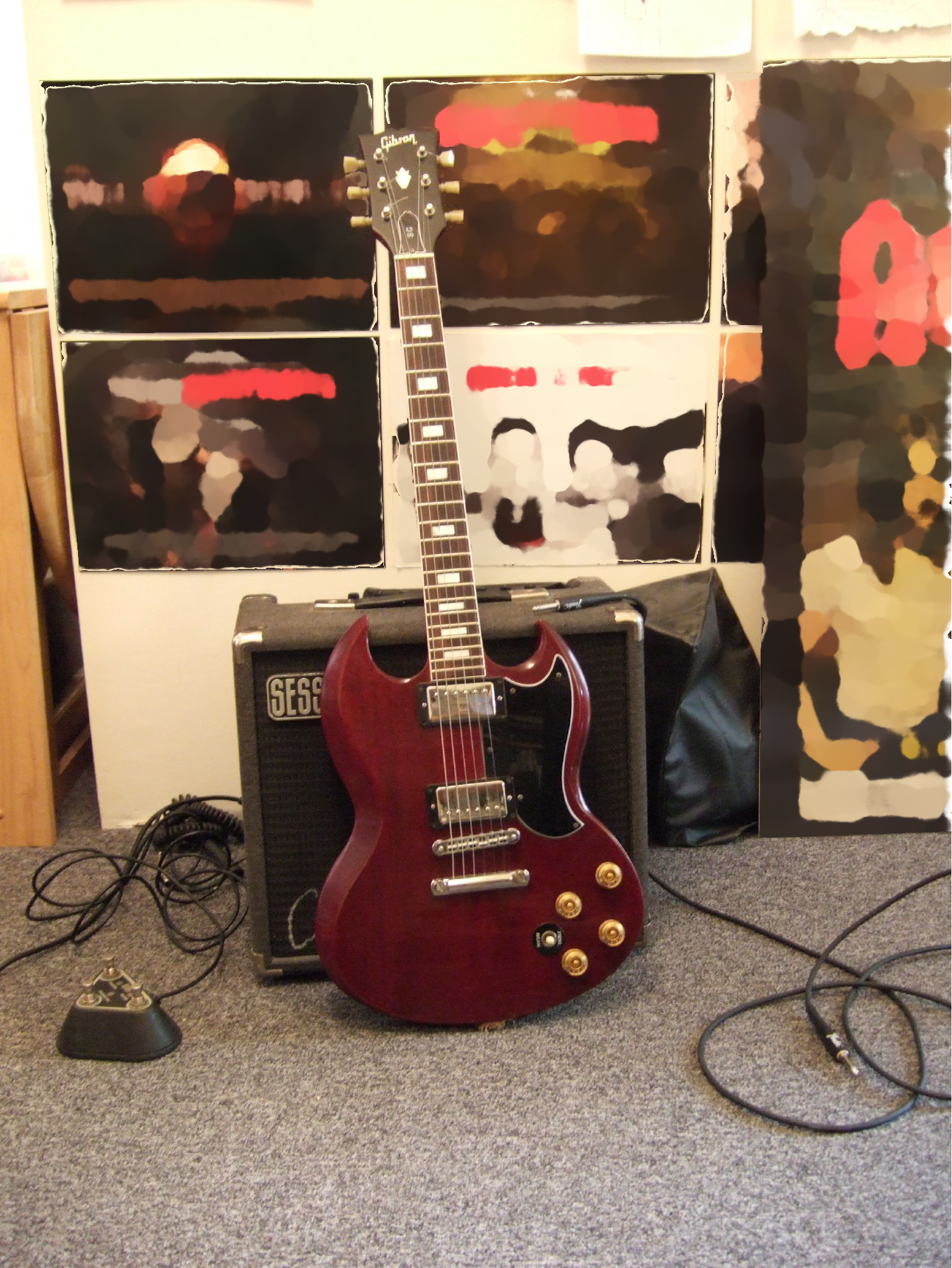 1984 Gibson SG Standard bought in a second hand shop in Camden in the early 90's, because I was a Zappa nut and an Angus Young fan. Had to replace the volume / tone knobs, and managed to avoid buying anything other than the tasteful gold ones you see here. It also has a side mounted input, which seems to be unusual. Note: pickup selector is above the volume/tone, and output jack is on the side bottom.